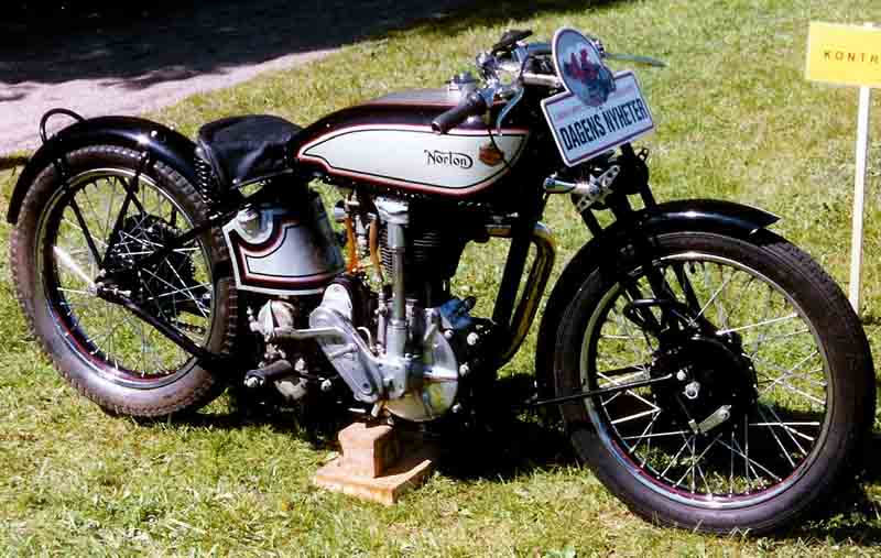 Norton CS1 500 cc Racer 1931